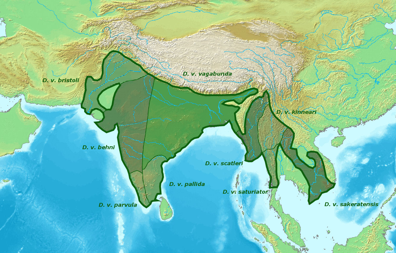 Distribution of the Rufous Treepie (Dendrocitta vagabunda) including subspecies according to Joseph del Hoyo, Andrew Elliot, David Christie (Hrsg.): Handbook of the Birds of the World. Volume 14: Bush-shrikes To Old World Sparrows. Lynx Edicions, Barcelona 2009. ISBN 9788496553507. Salím Ali, S. Dillon Ripley: Handbook of the Birds of India and Pakistan. Volume 5: Larks to the Grey Hypocolius. Oxford University Press, London 1972.